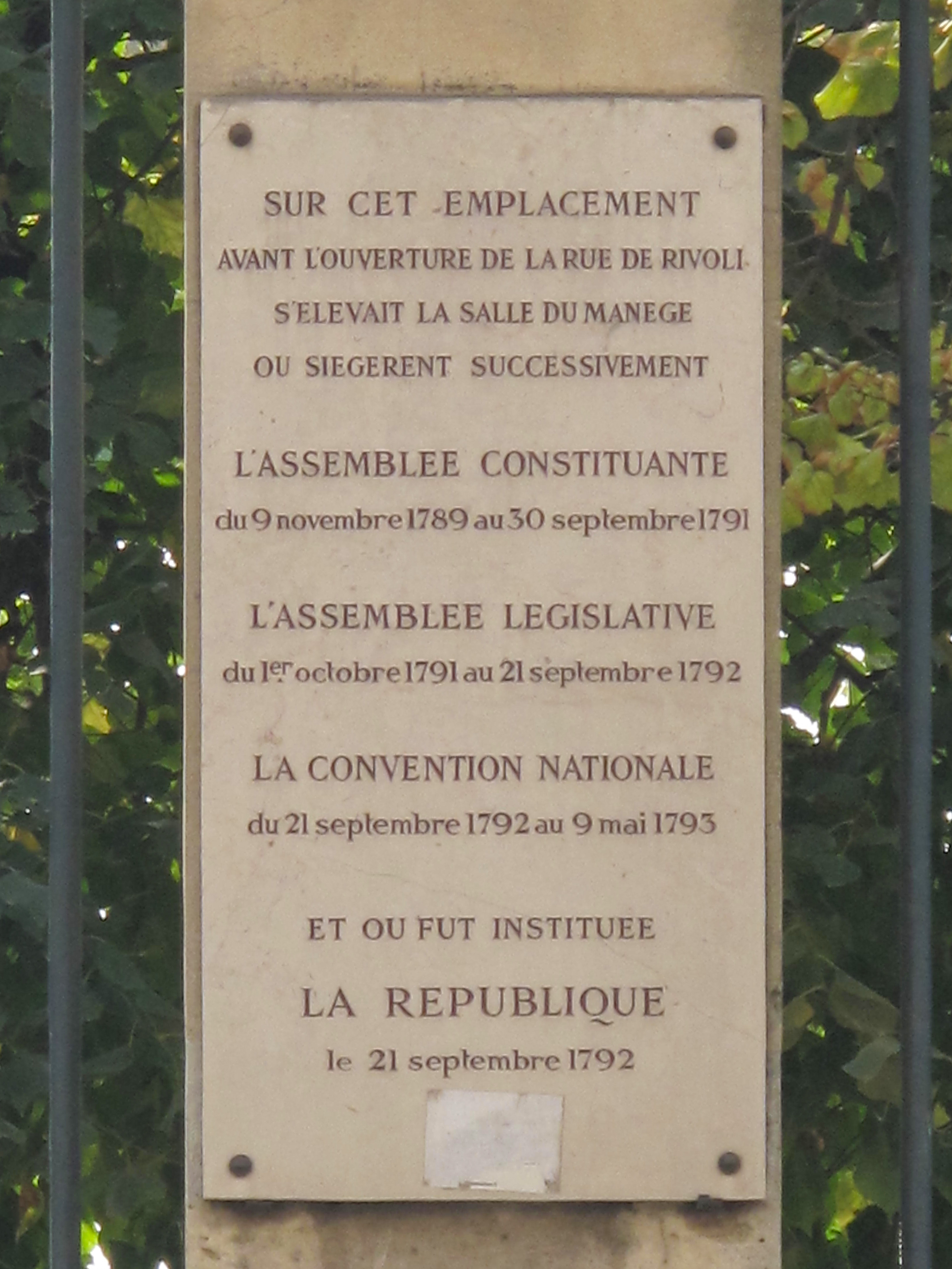 Plaque in the place of the salle du Manège where gathered the national assemblies during the french Revolution. And where the Republic was promoted on the sep-21 1792. Rue de Rivoli, Paris 1st arr.